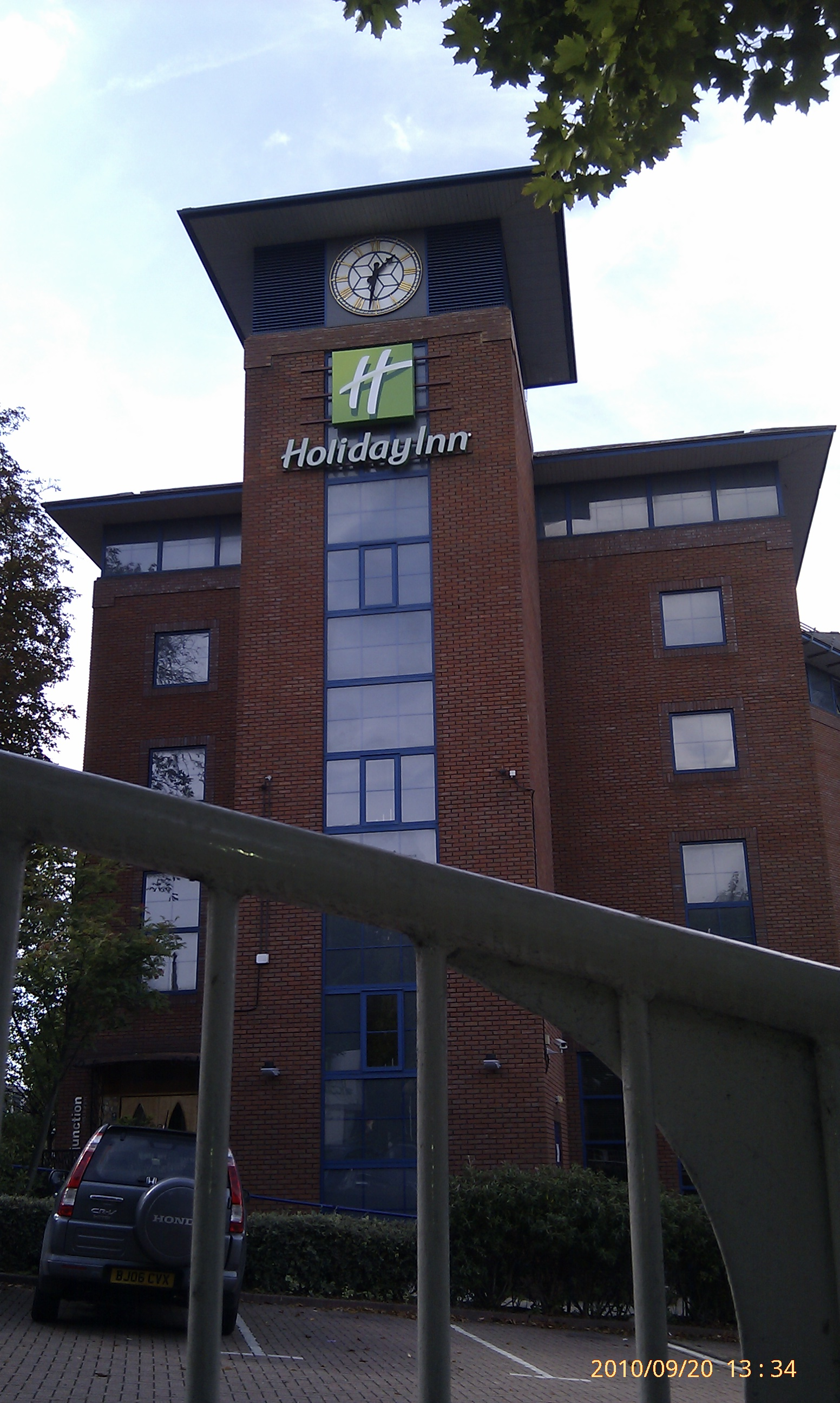 Sutton HolidayInn Clock